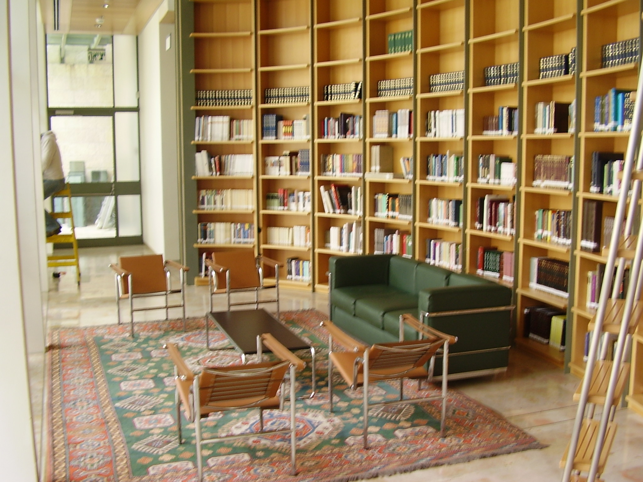 the library in avi-chai house in jerusalem